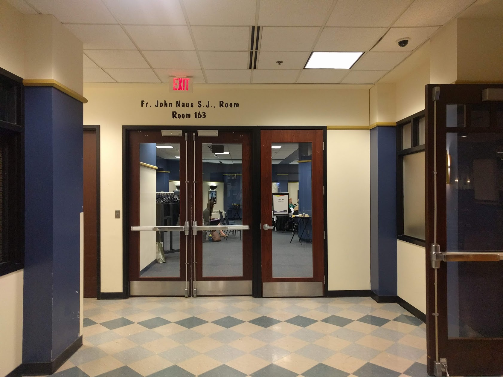 Photograph of the meeting room dedicated to Father John Naus at Marquette University.